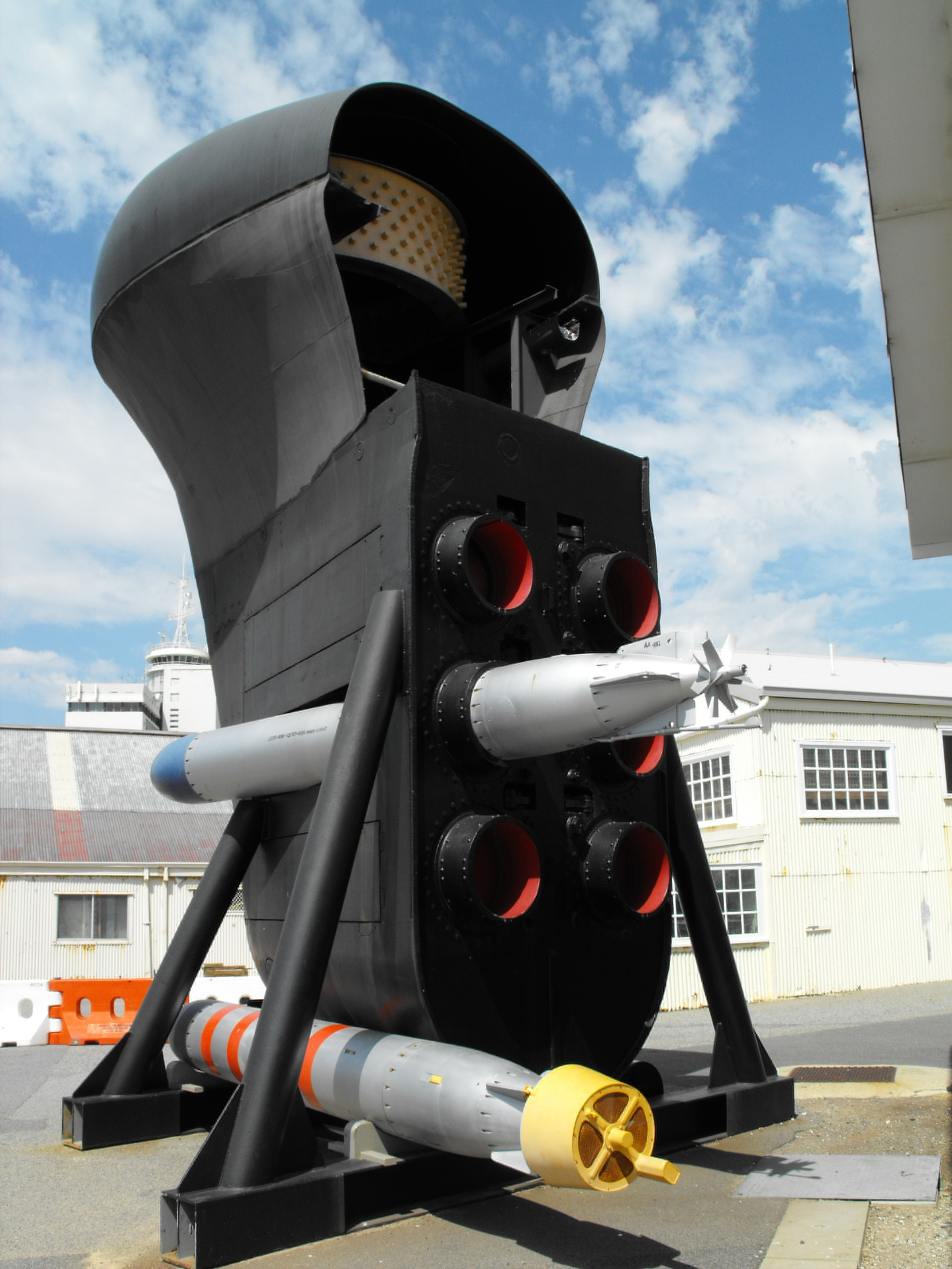 The bow of HMAS Oxley, on display at the Western Australian Maritime Museum. The section includes the mouths of the torpedo tubes (with a mocked-up torpedo emerging from one), and the Krupp-Atlas CSU3-41 bow sonar dome (with a mocked-up sonar array)